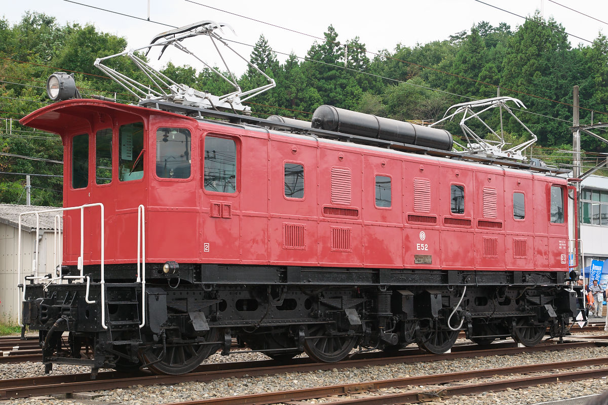 Seibu Railway type E51 (No. E52) electric locomotive in Yokoze. Type E51 was JNR ED12, built by Brown Boveri Co., in 1923.